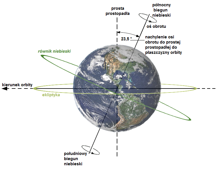 Description of relations between Axial tilt (or Obliquity), rotation axis, plane of orbit, celestial equator and ecliptic. Earth is shown as viewed from the Sun; the orbit direction is counter-clockwise (to the left).